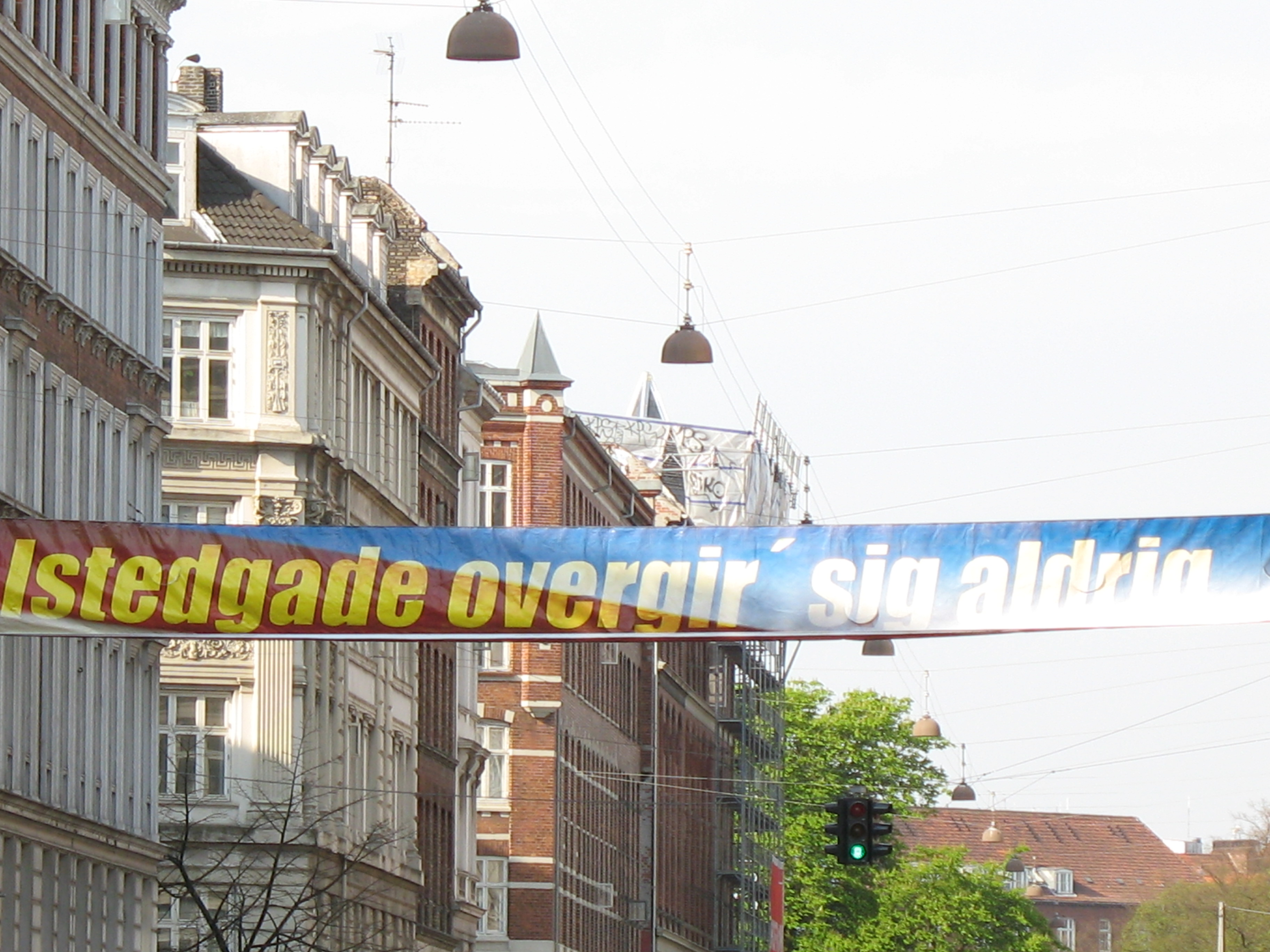 Banner across Istedgarde (Copenaghen) which reads "Istedgade never surrenders"